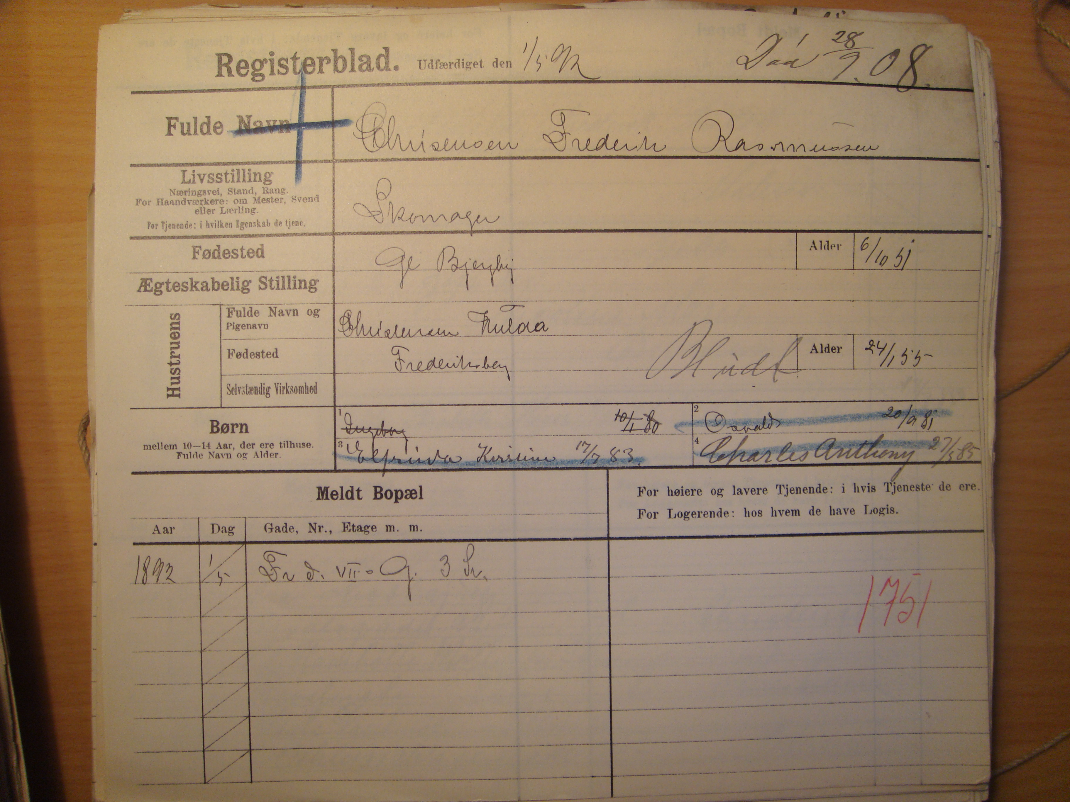 Registration card of the Police for Shoe maker Frederik Rasmussen Christensen. The original photographed at the regional Archive at Jagtvej, Copenhagen. The original cards are stored stackwise, each stack kept together with a string which can be seen in the background.